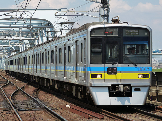 Chiba New Town Railway 9800 series EMU set 9808